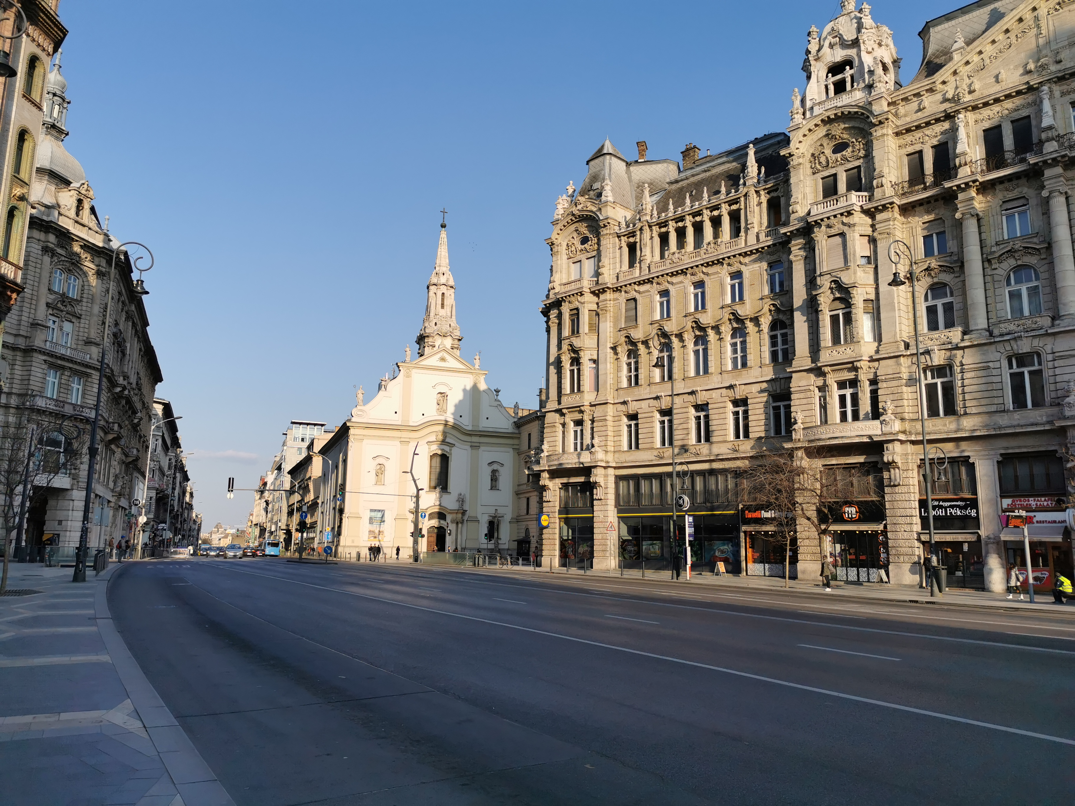 The first day of the European continental closure. Downtown Budapest, Central Europe on the 18th of March, 2020, rush hour - 16.22 o'clock pm, Central European Time.